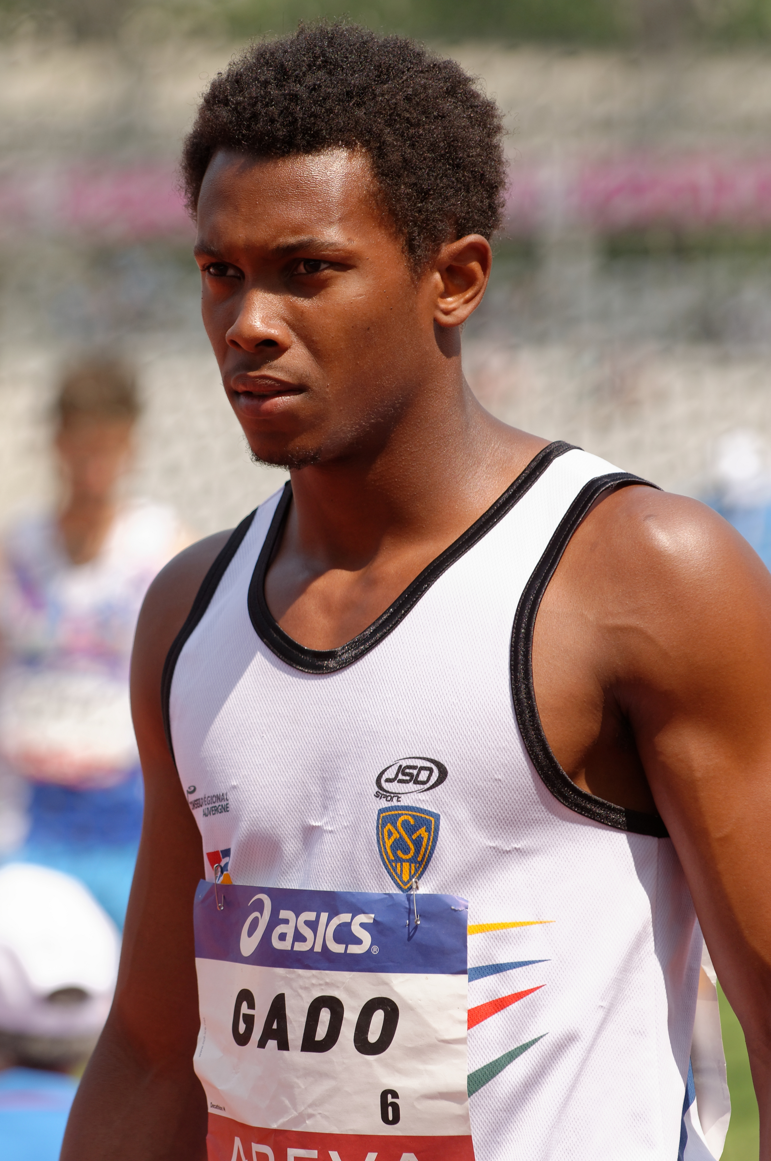 Ruben Gado competes in the men's decathlon discus throw final during the French Athletics Championships 2013 at Stade Charléty in Paris, 13 July 2013.